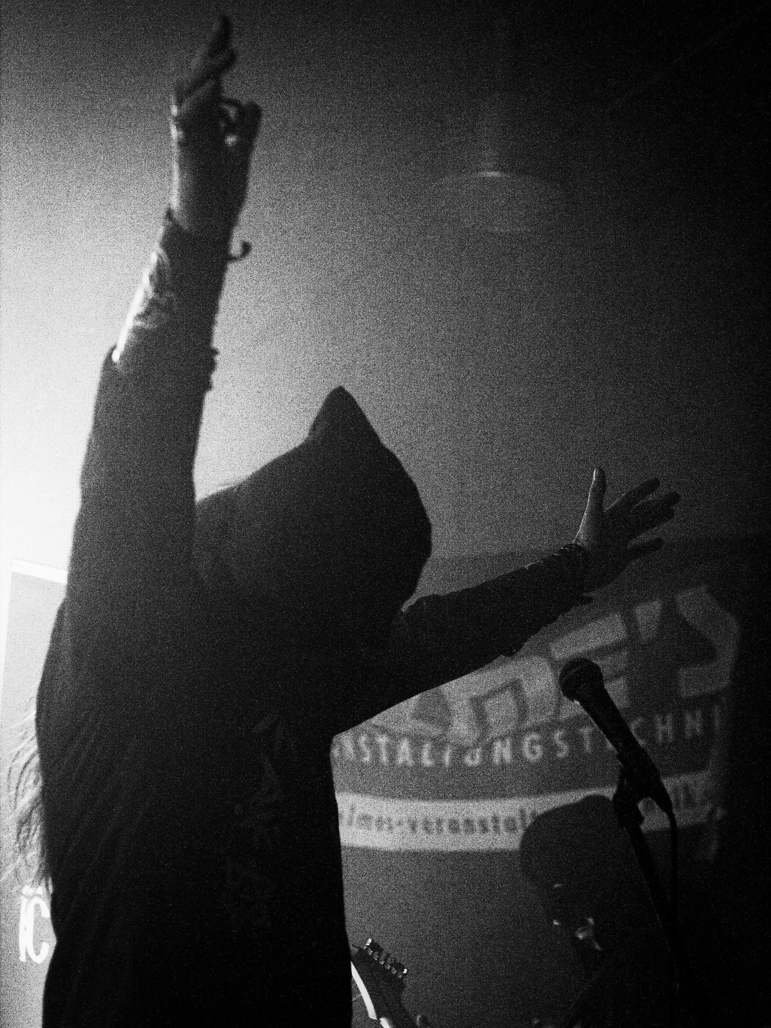 Simon Rosén of the band Crimson Moonlight in Blast of Eternity 2011.